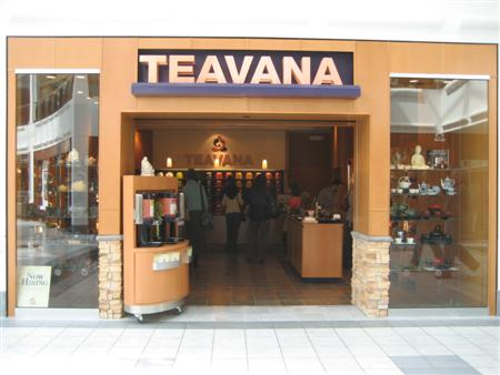 A Teavana store in a Nashville shopping mall